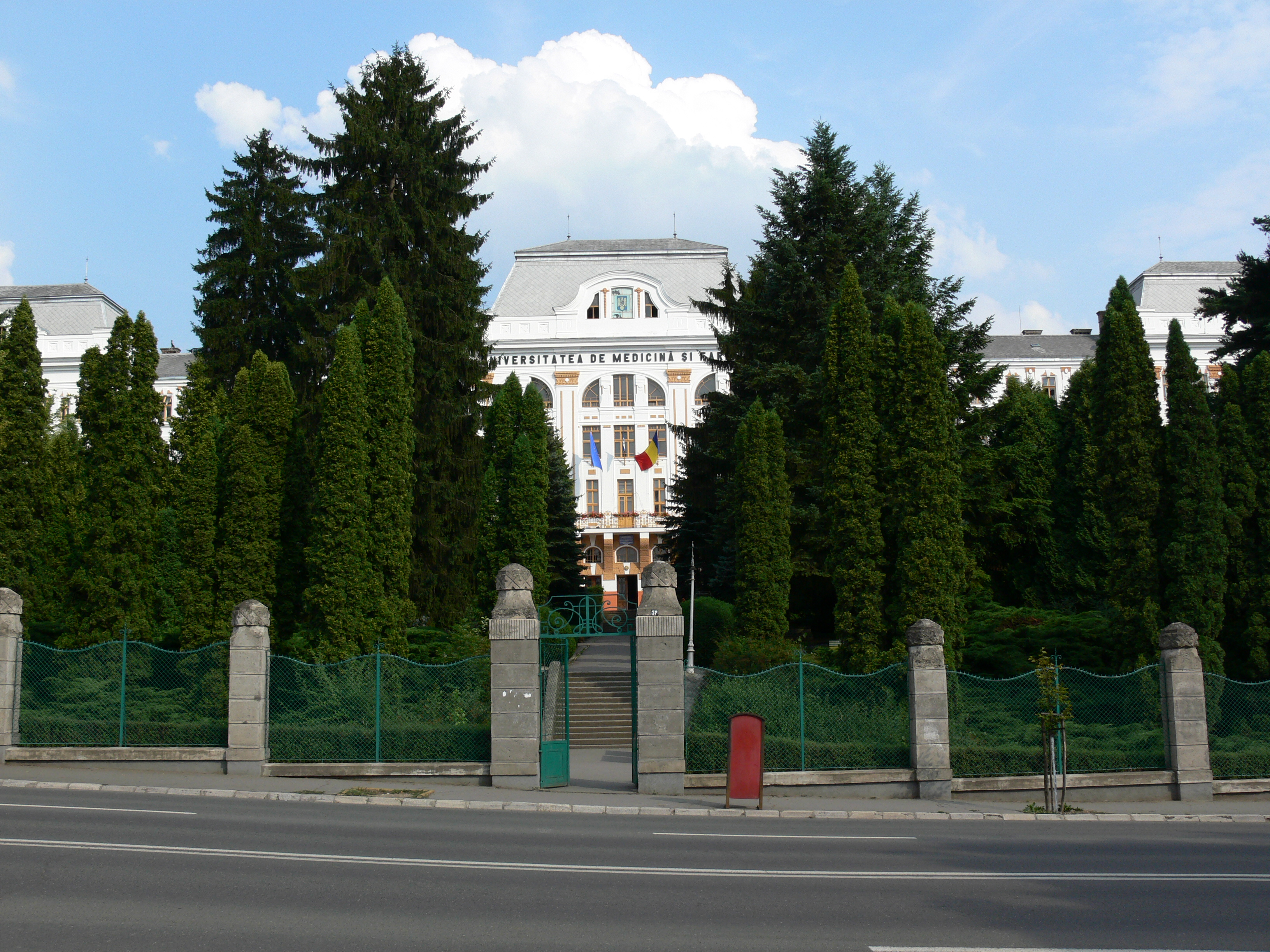 University of Medicine and Pharmacy of Târgu-Mureş, Romania